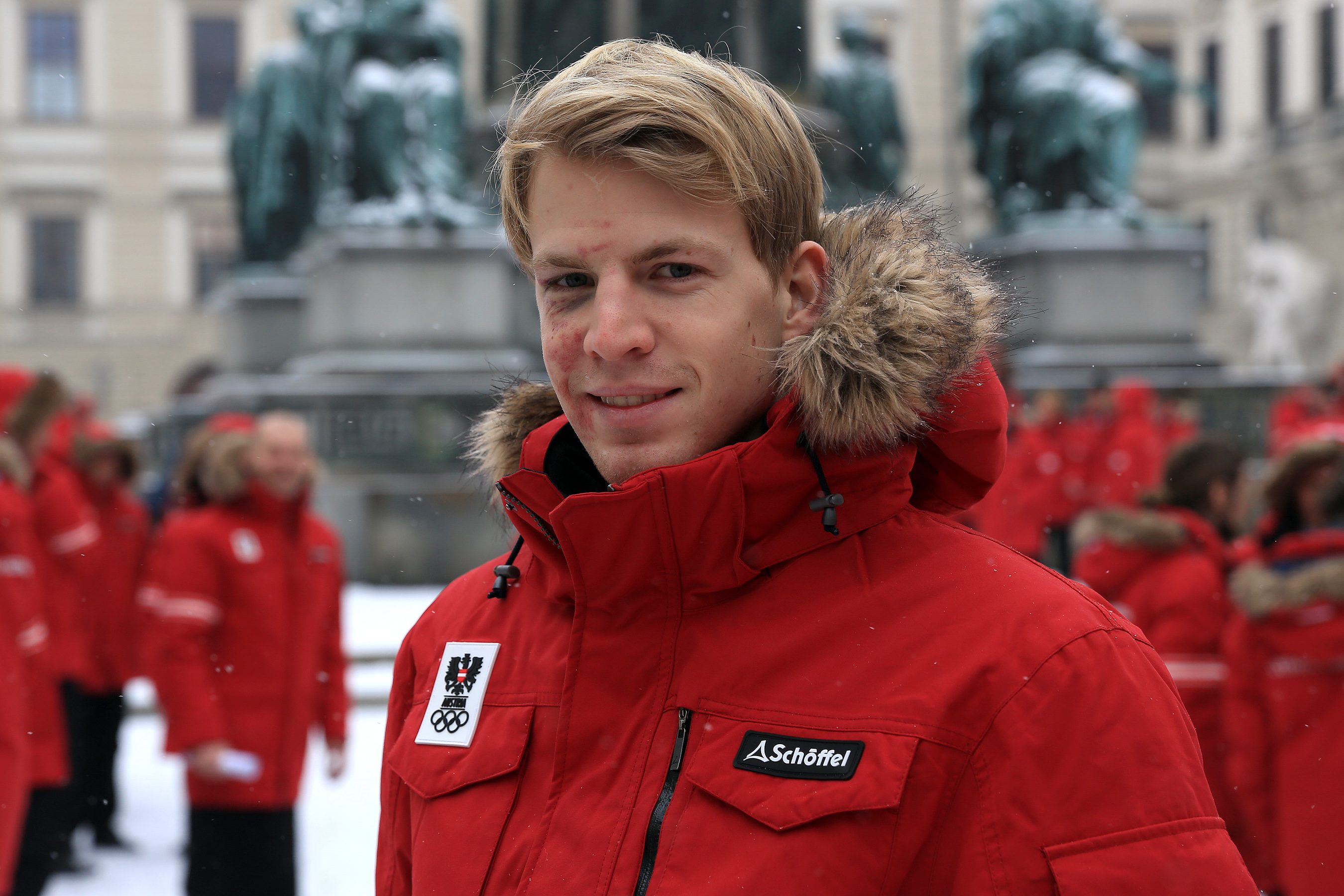 Athletes of the Austrian team for the 2014 Winter Olympics - ski jumping: Michael Hayböck before the reception by Federal President Heinz Fischer at Hofburg Palace in Vienna, Austria.